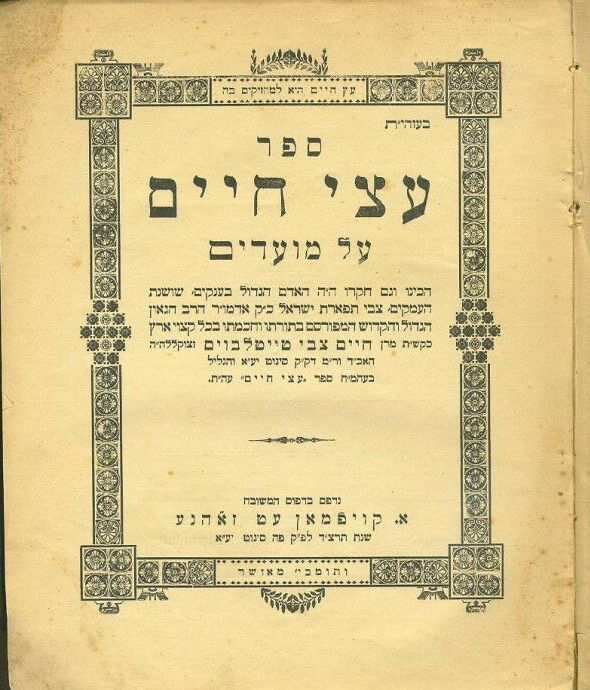 ATZEI CHAIM BOOK